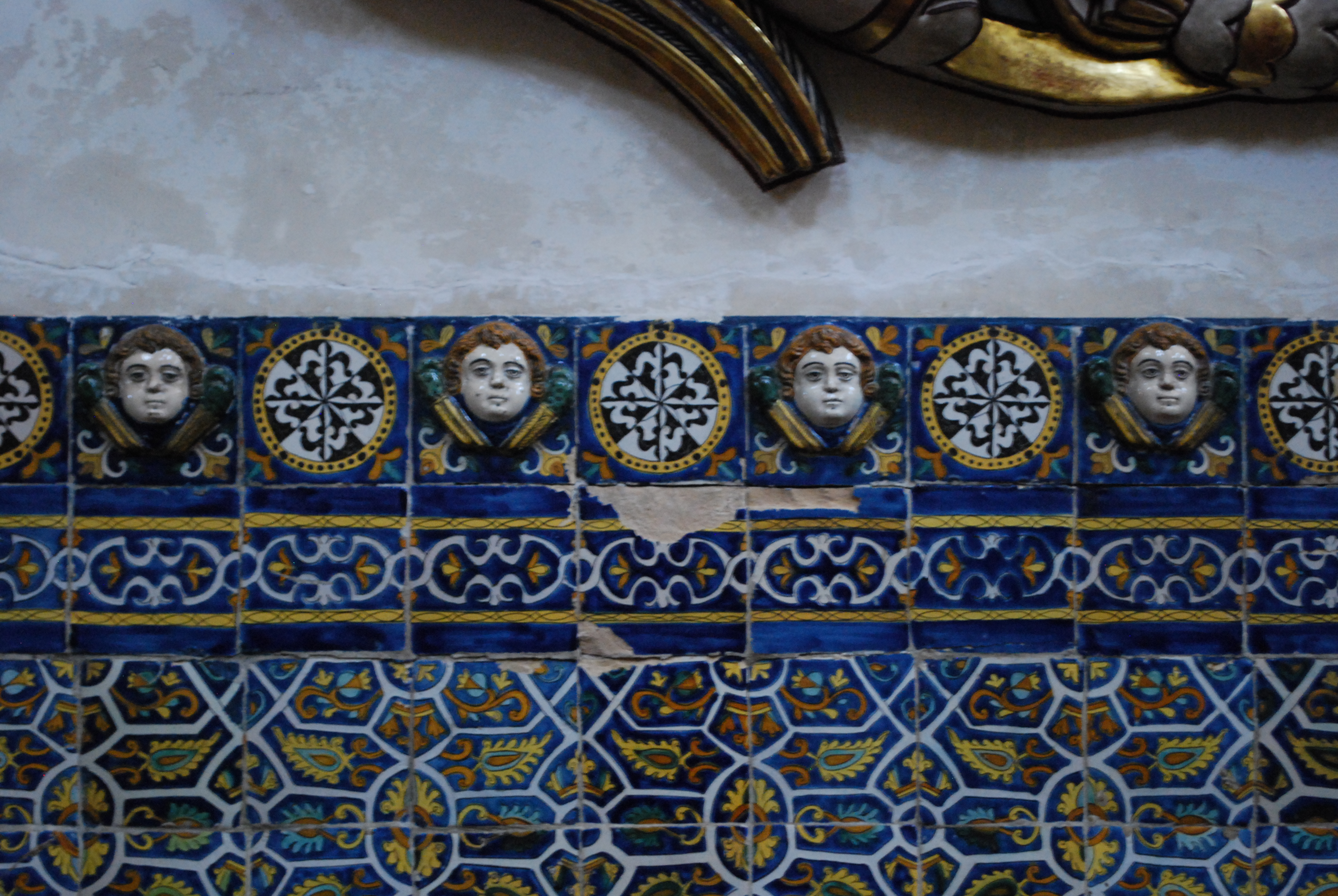 Talavera tile inside the Capilla del Rosario in Puebla, Mexico. The tile goes along three walls of the chapel and the raised angel faces were used to count off the prayers of the Rosary.